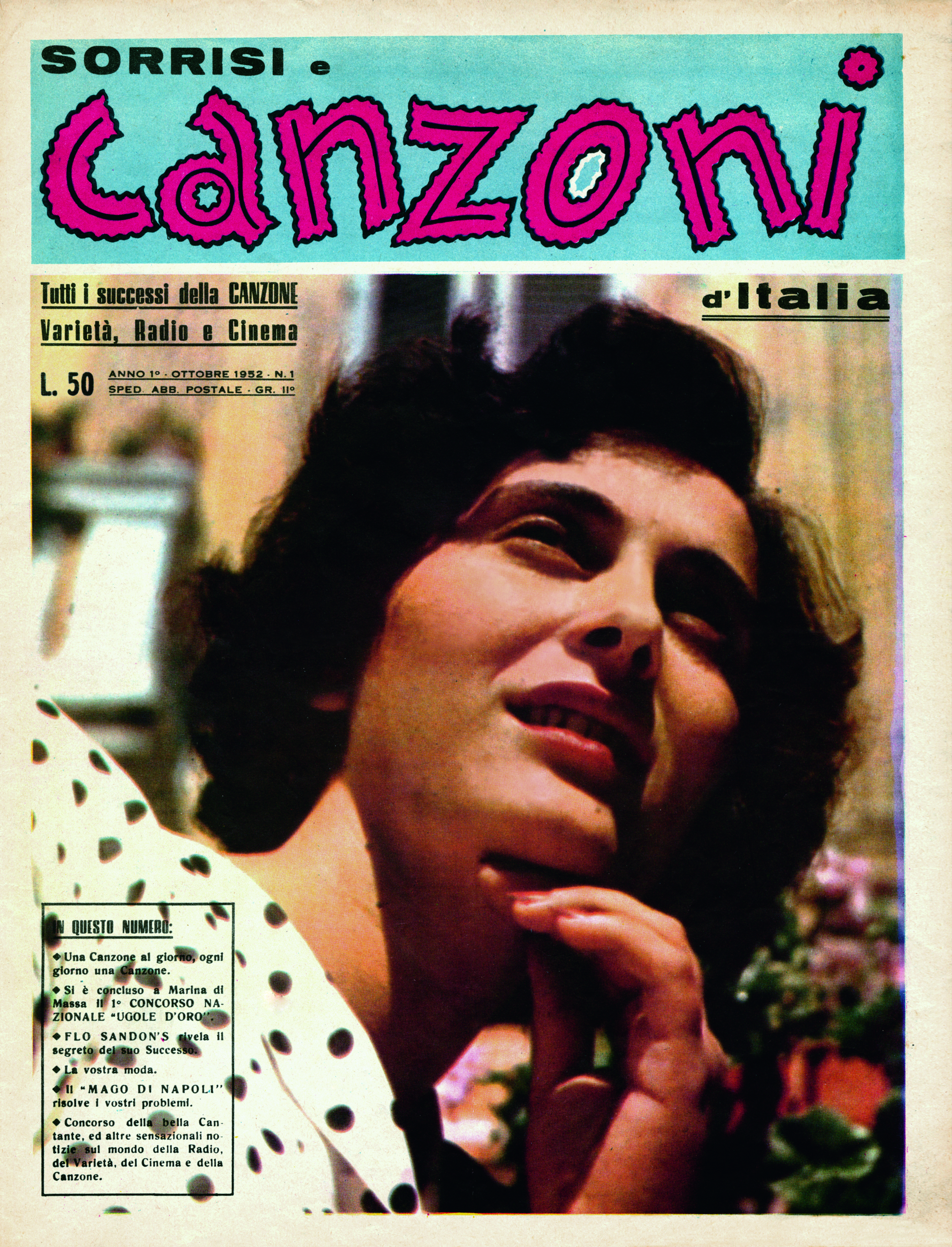 The portrait of the young italian singer Iride Luppi on the cover of the first number of the magazine TV Sorrisi e Canzoni (its first name was "Sorrisi e Canzoni d'Italia"). Italy, October 1952.